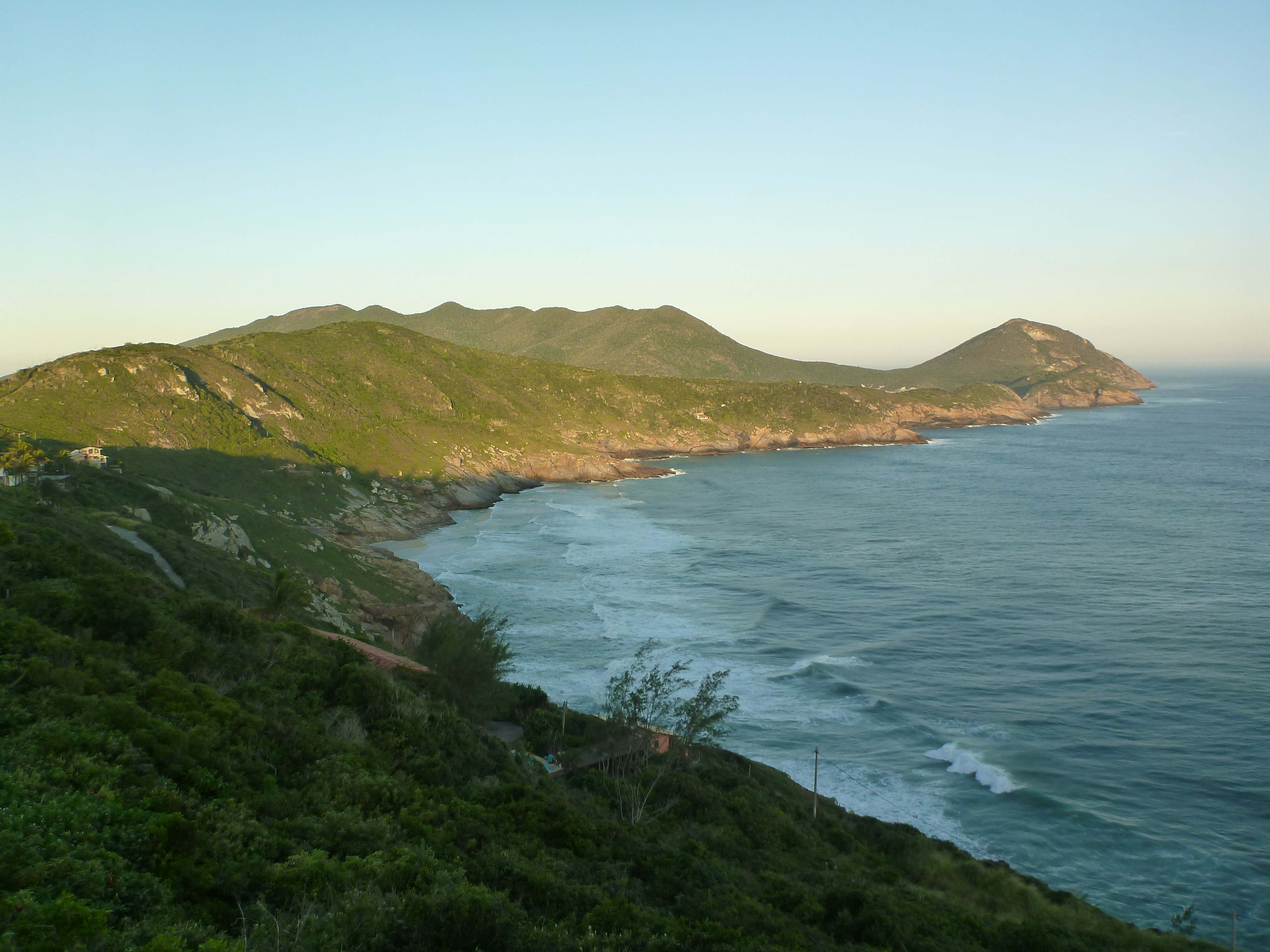 Peninsula Pontal do Atalaia in the Parque Estadual da Costa do Sol close to Arraial do Cabo